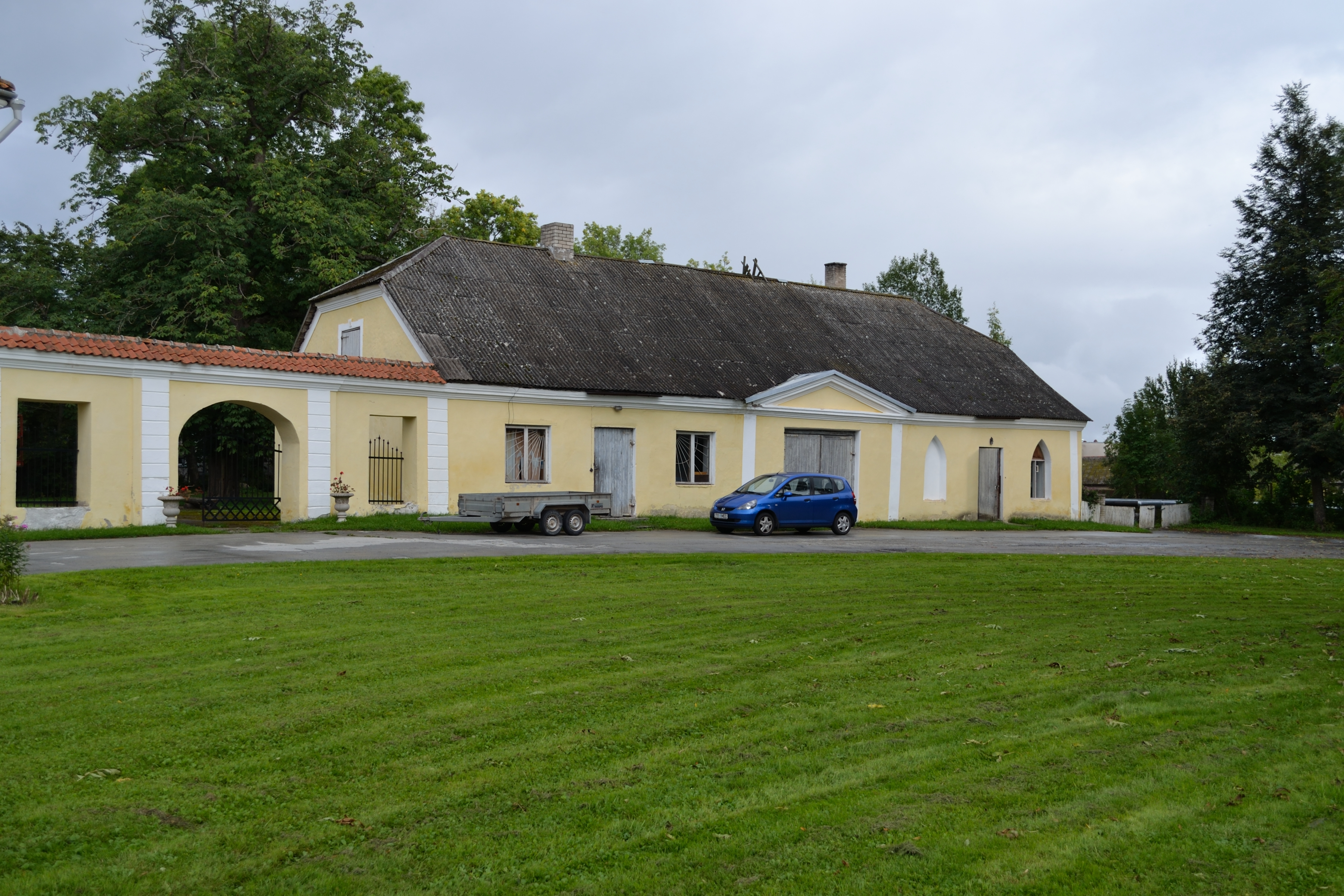 Saue manor granary, 18. century